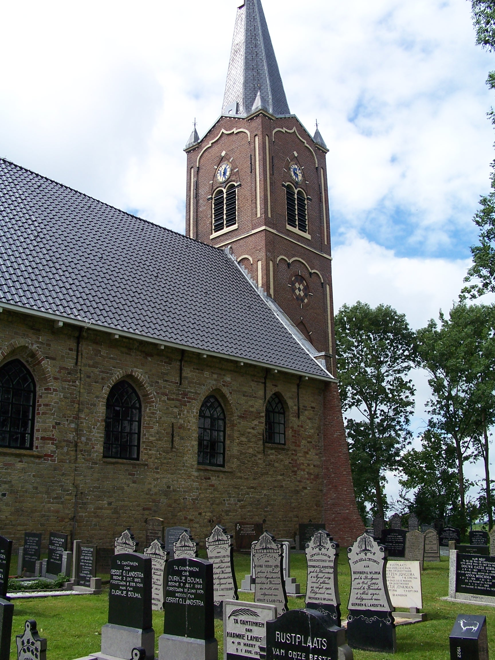 The church of the dutch village Wiuwert.